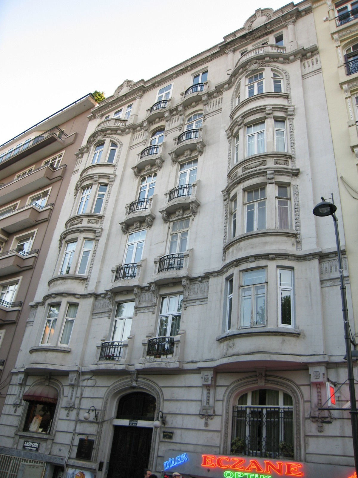 A historical building in Teşvikiye neighbourhood of Şişli district in Istanbul, Turkey